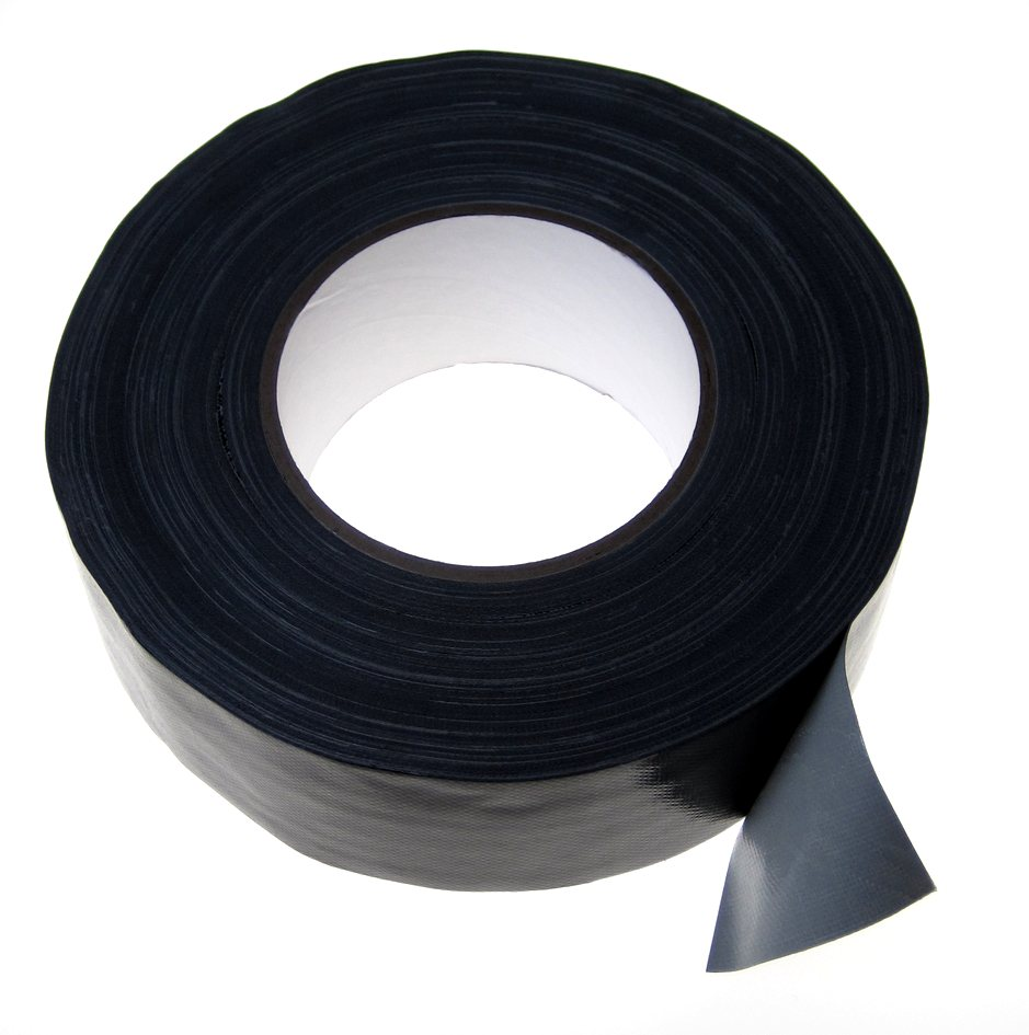 Panzerband Duct tape